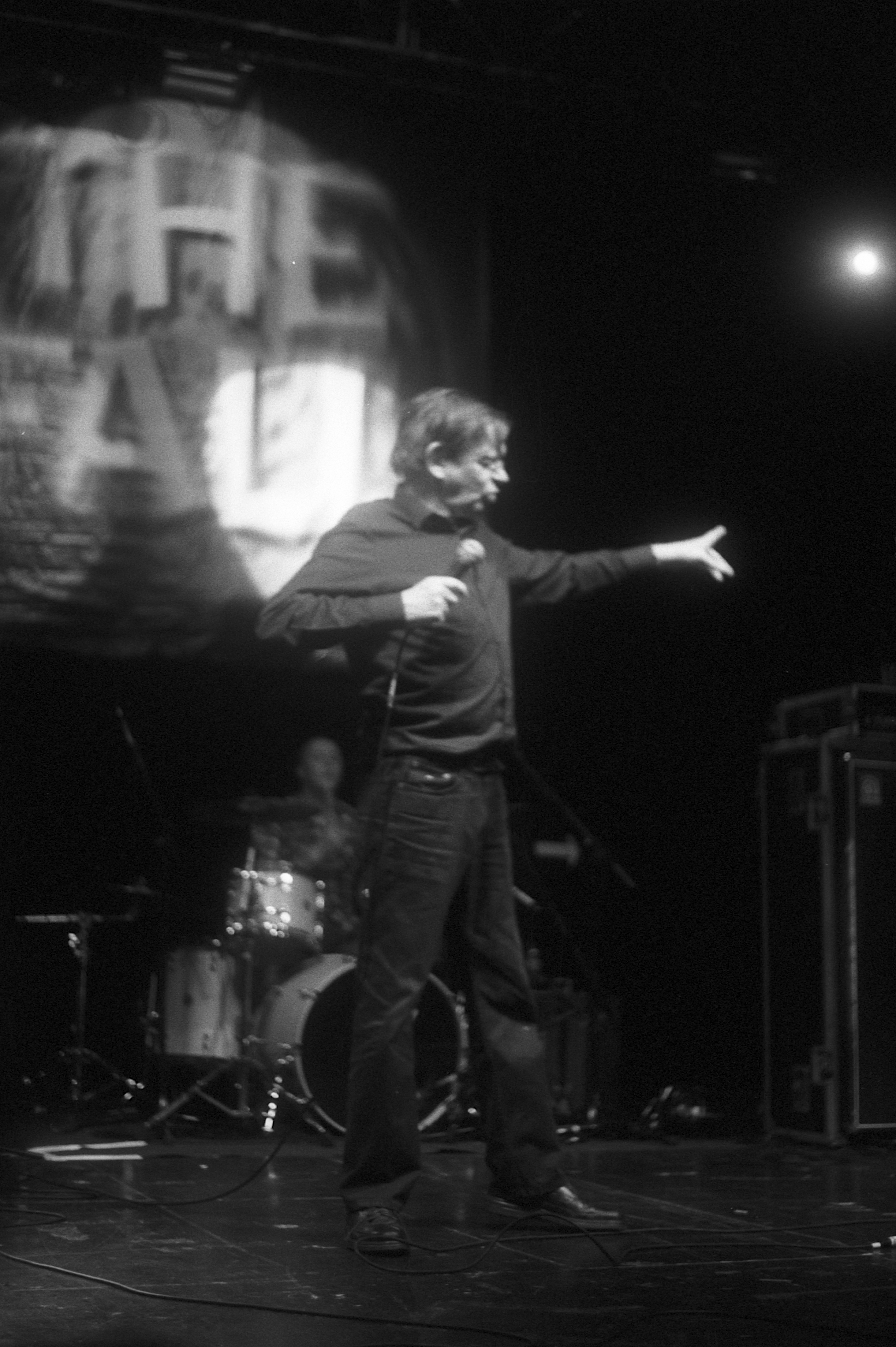 Mark E Smith, Edinburgh 2011